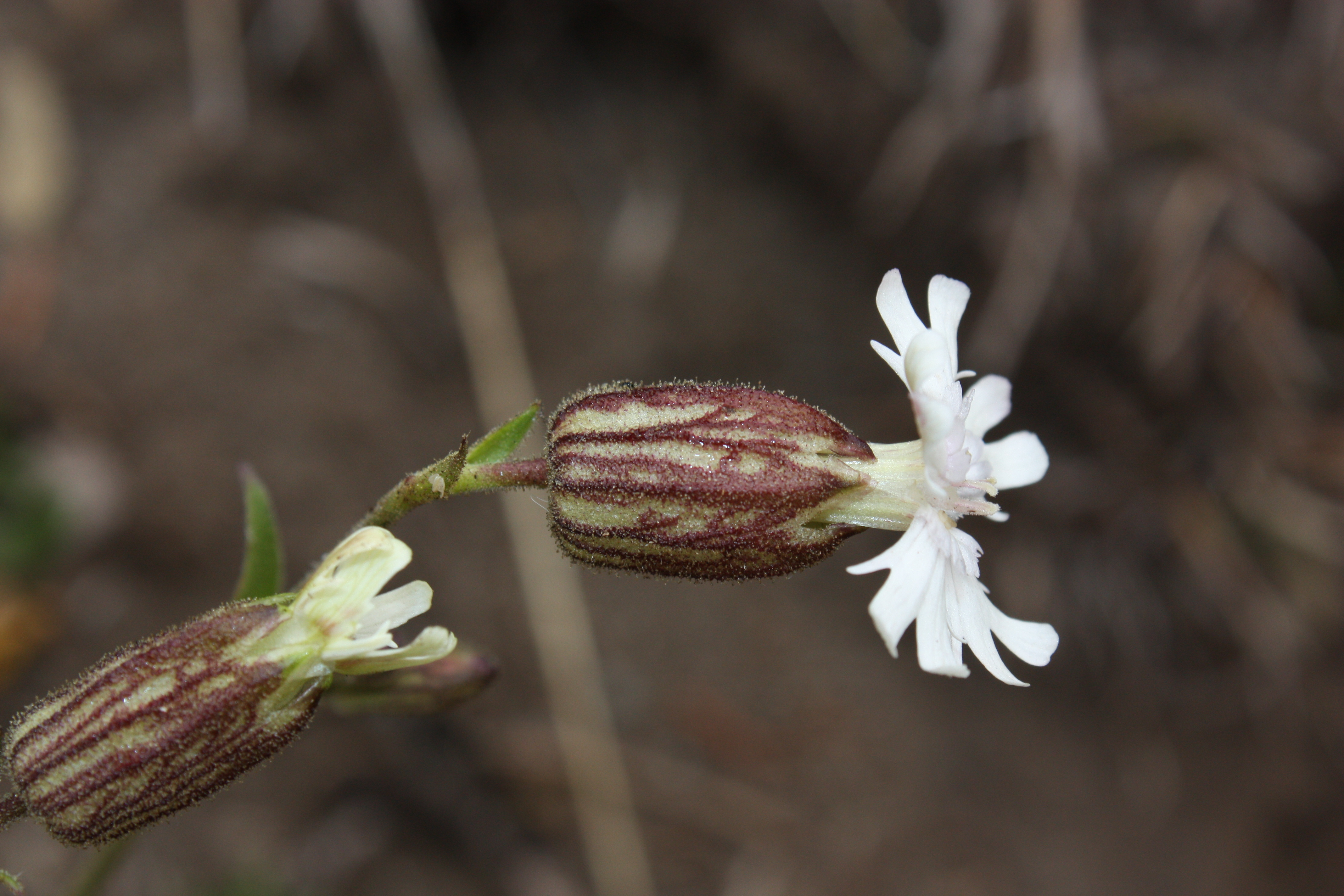 Parry's Silene